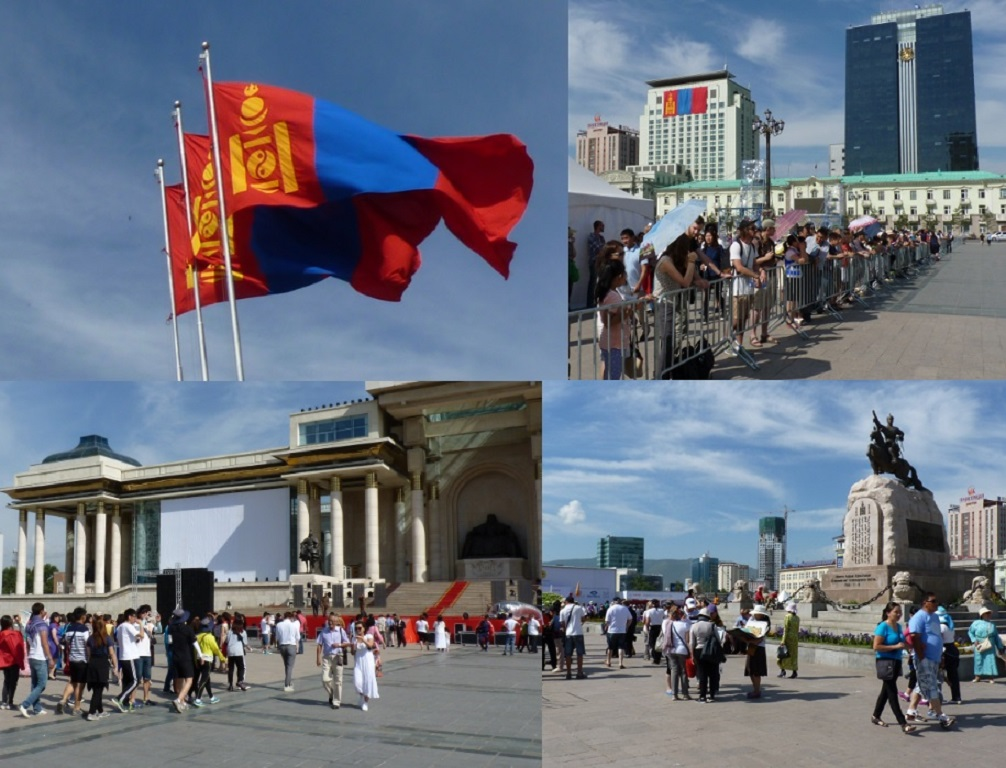 Collage of images from Chingis Square (Sükhbaatar square) in Ulaanbaatar, Mongolia